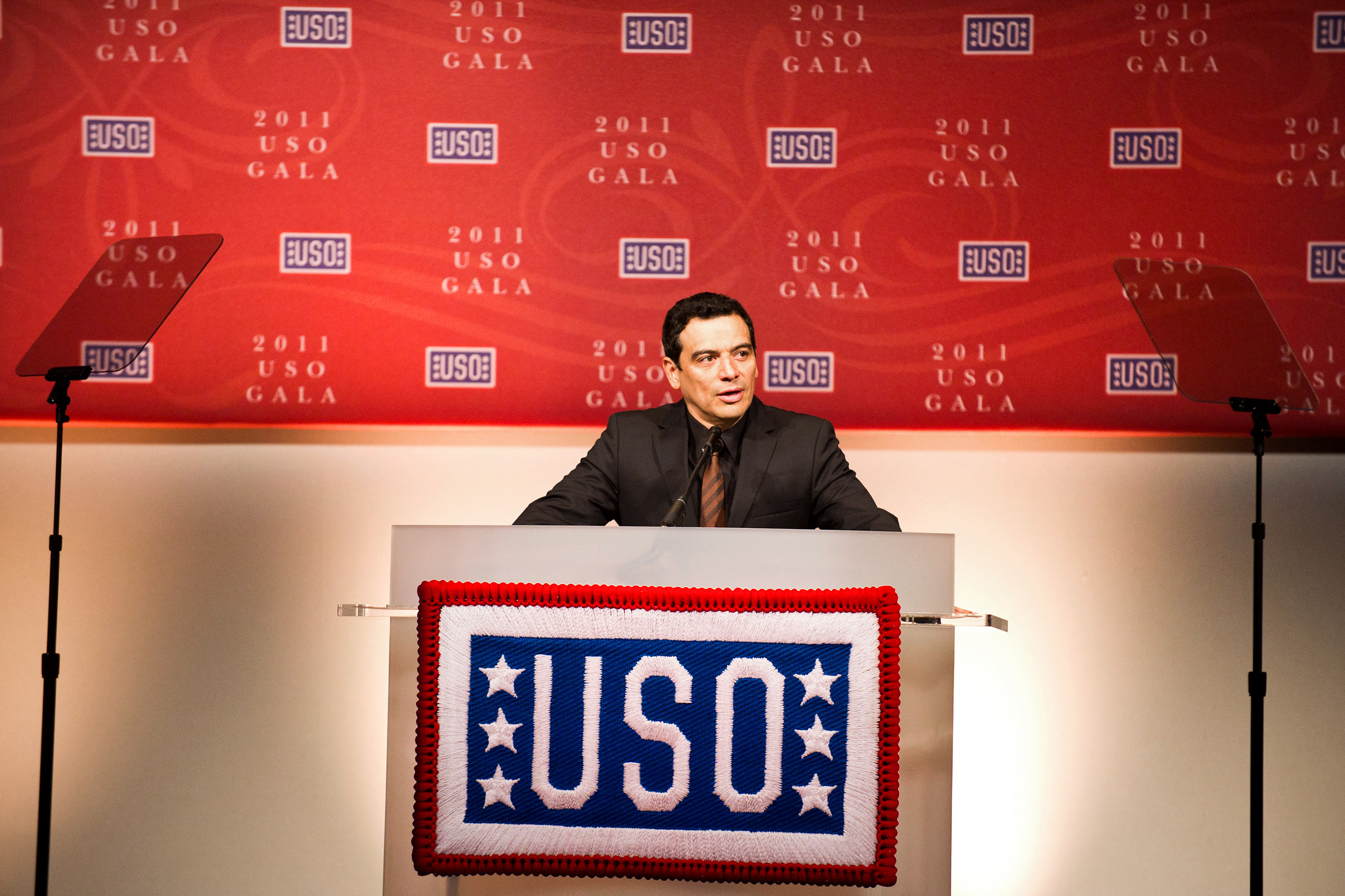 Carlos Mencia hosting the 2011 USO Gala in Washington, D.C. on October 6, 2011